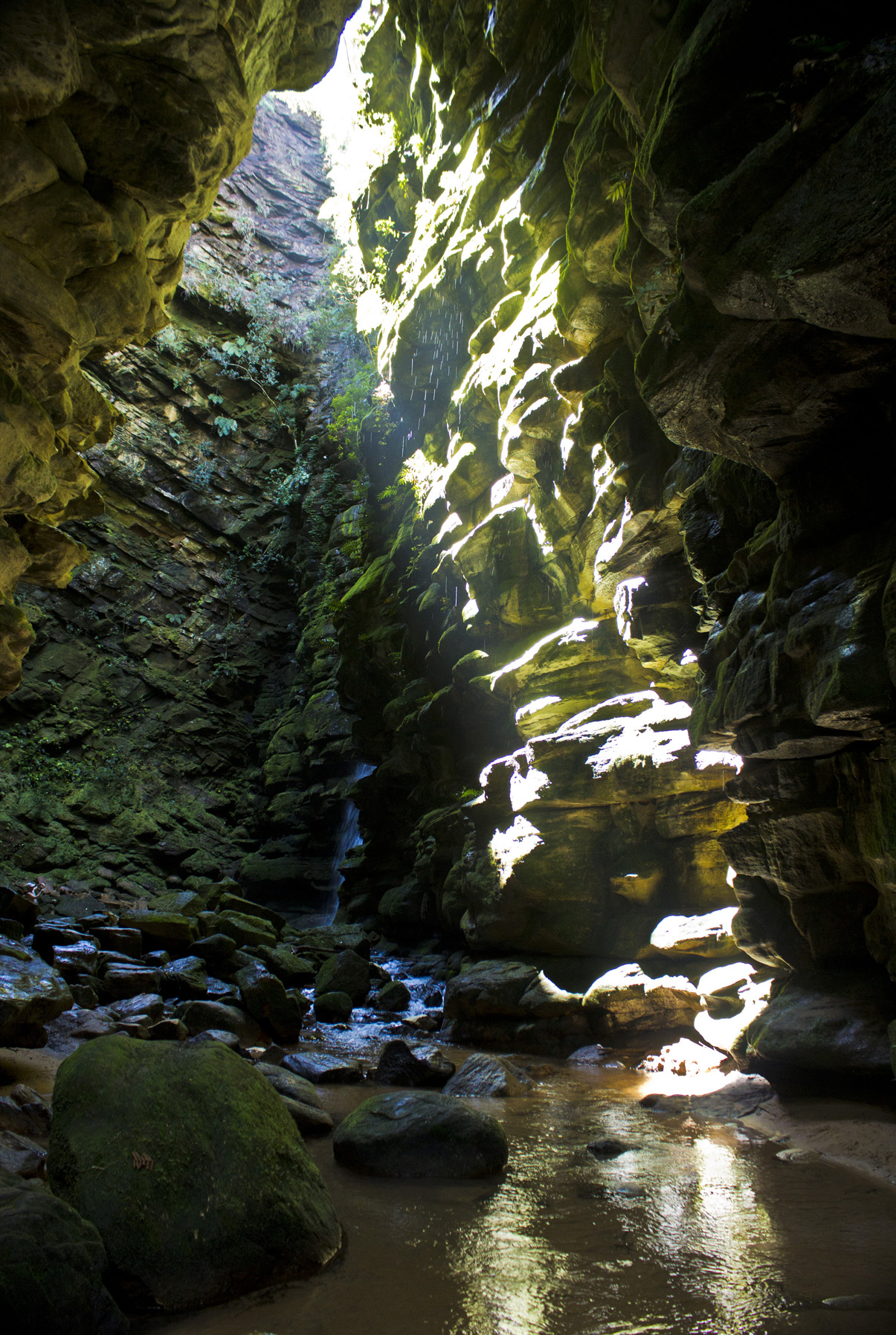 The first view entering Buraco do Padre